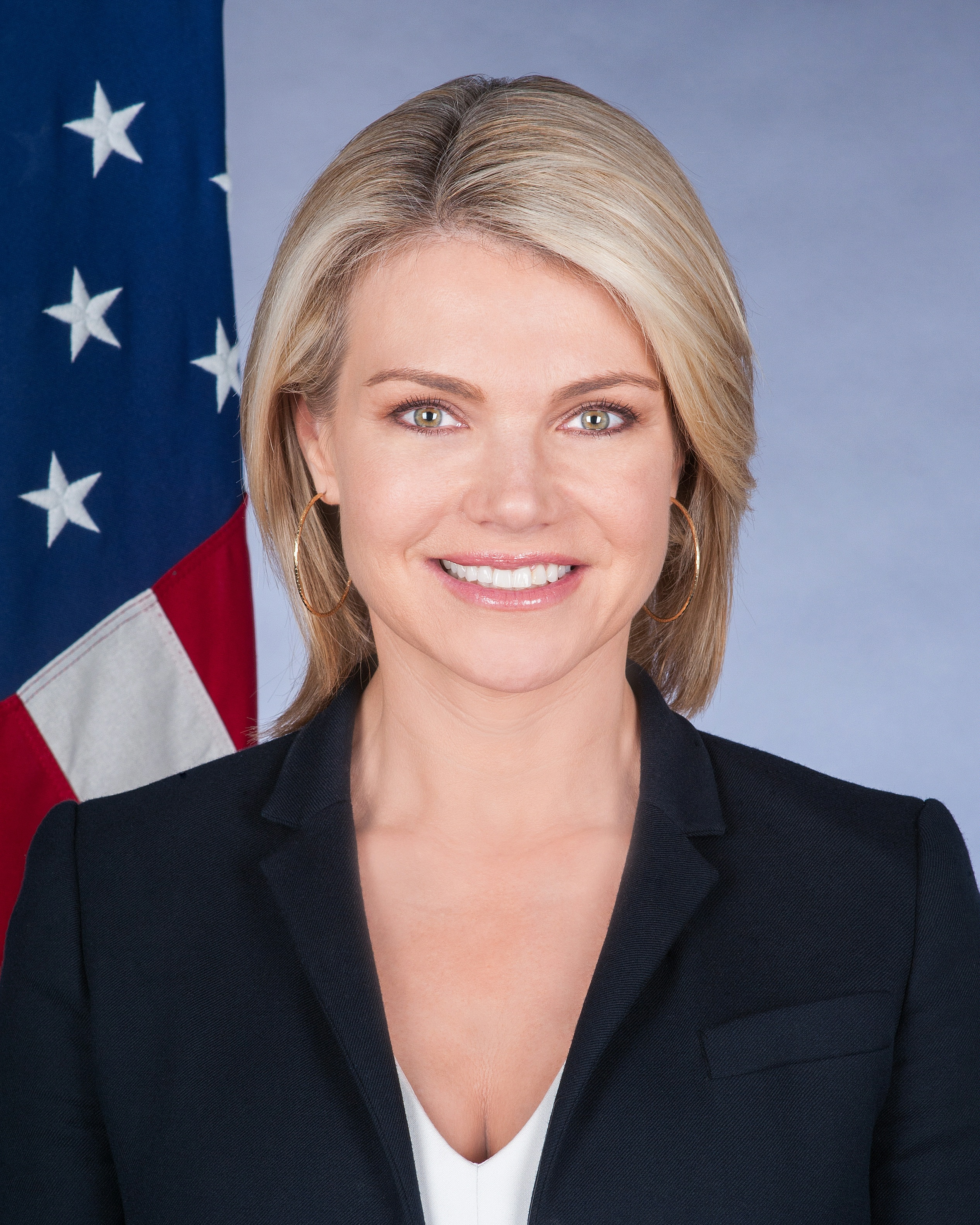 Heather Nauert official photo